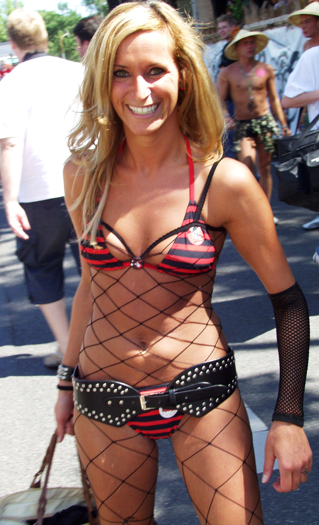 Members of the Christopher Street Day demonstration - ColognePride 2006